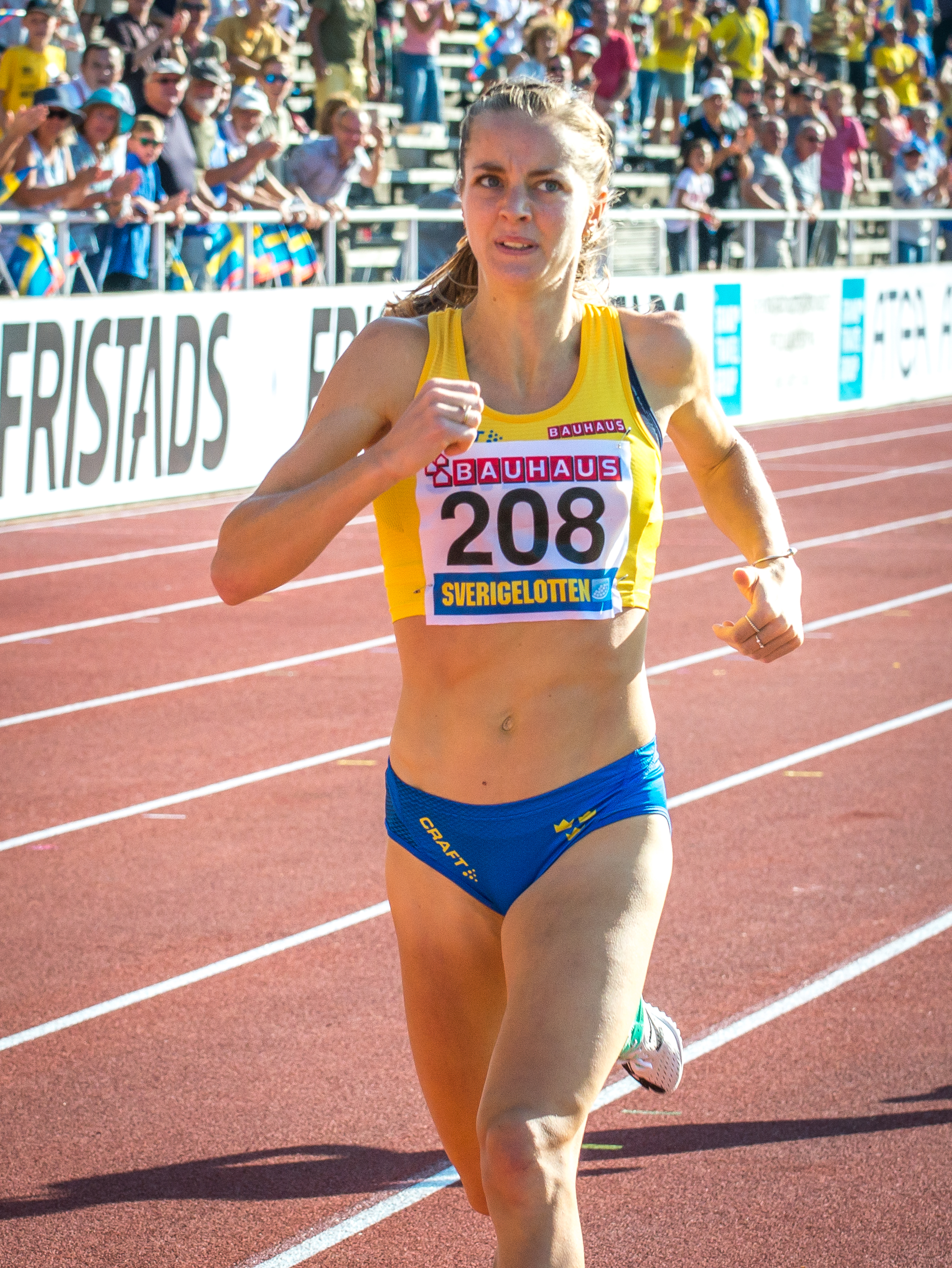 Lovisa Lindh during the Finland-Sweden athletics international 2019 at the Stockholm Stadium in August 2019.